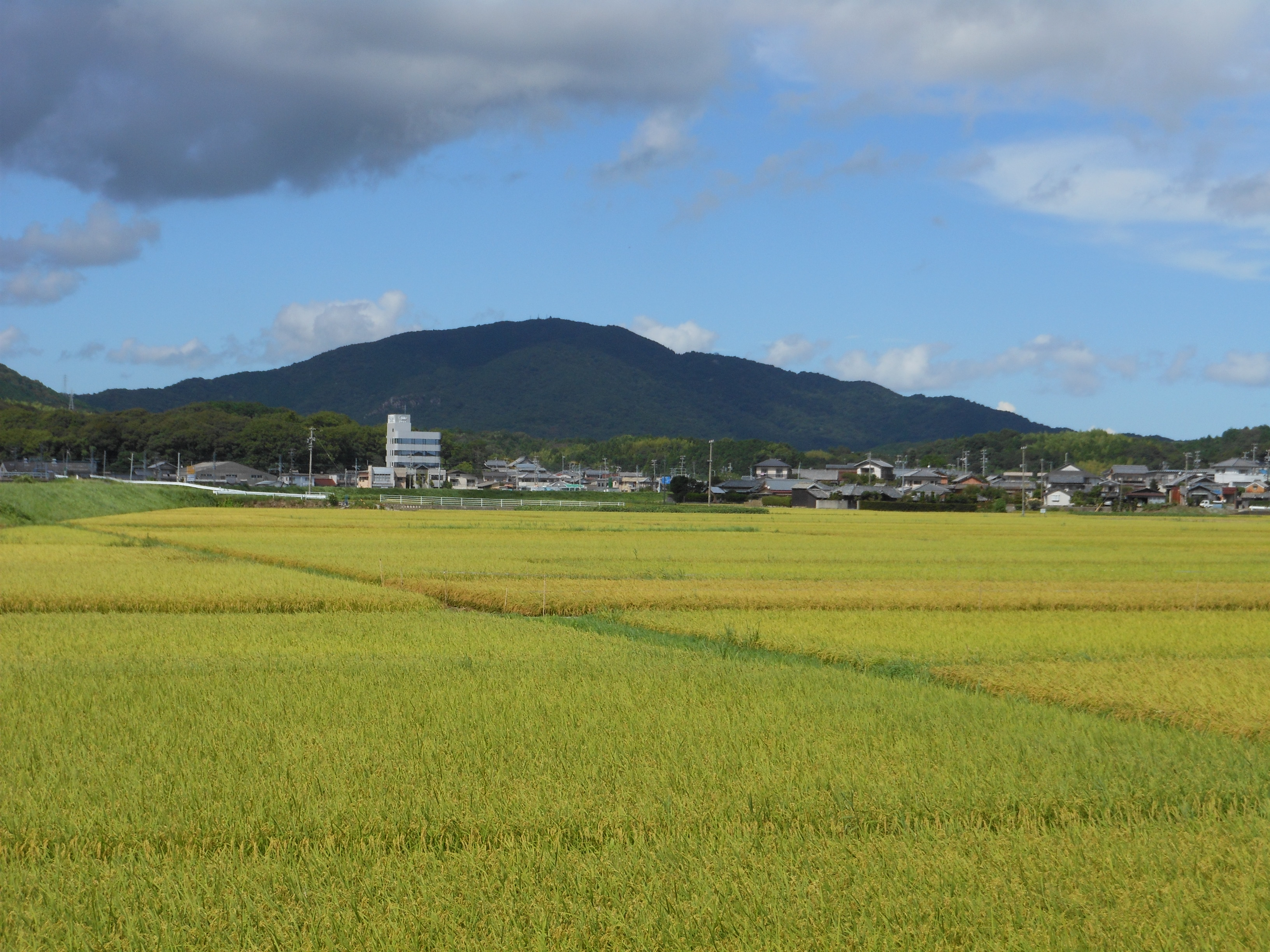 This is Mt. Aonomine. This photo was taken from Isobecho-Shimonogo, Shima, Mie, Japan.